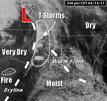 In the picture: The satellite showed thunderstorms popping up quickly along a dryline to the west of Arkansas at 340 pm CDT on April 14, 2011. The dash dry line separate very dry and moist airmass.